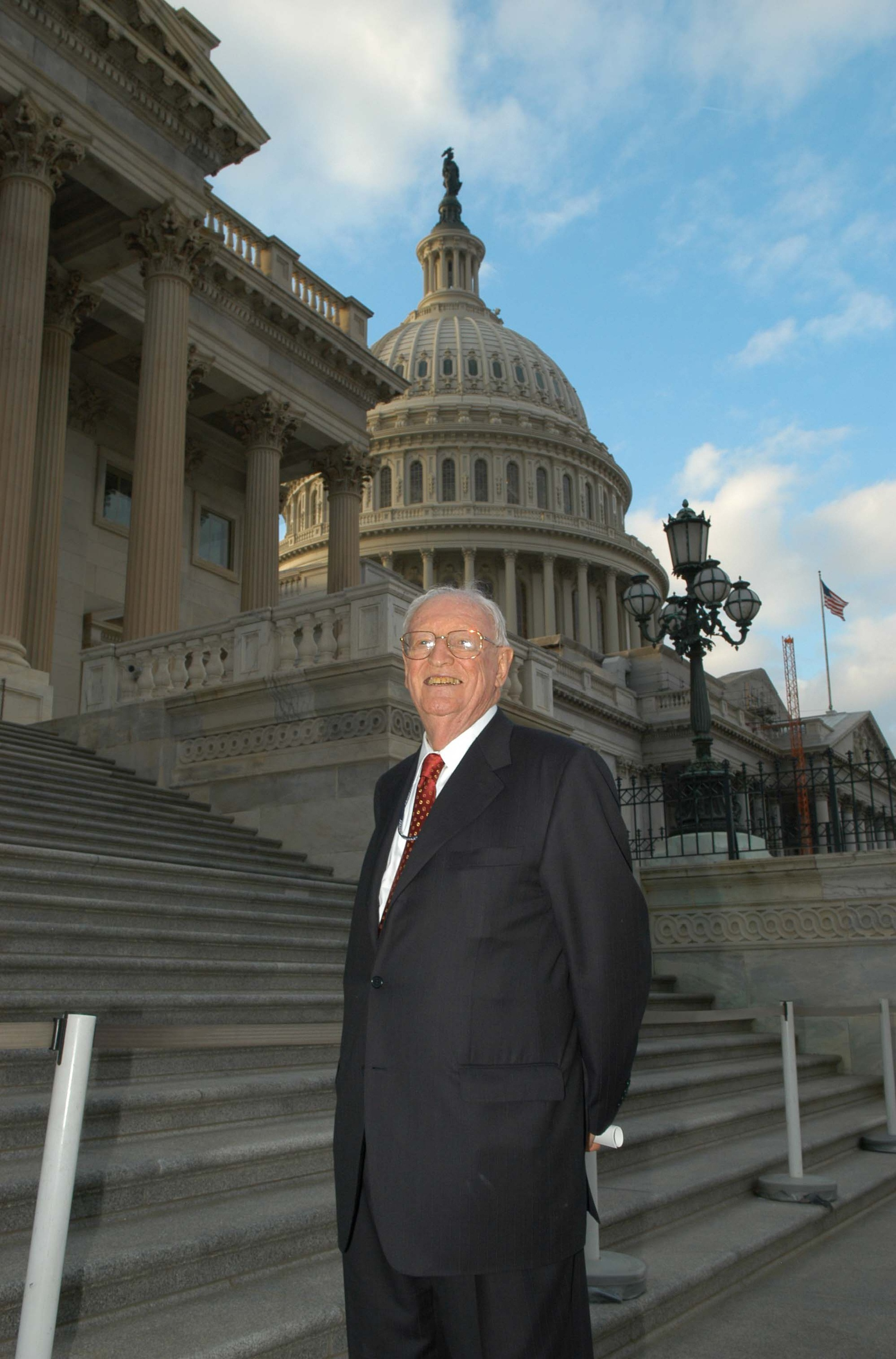 Robert V. Remini stands on the House steps in 2005.